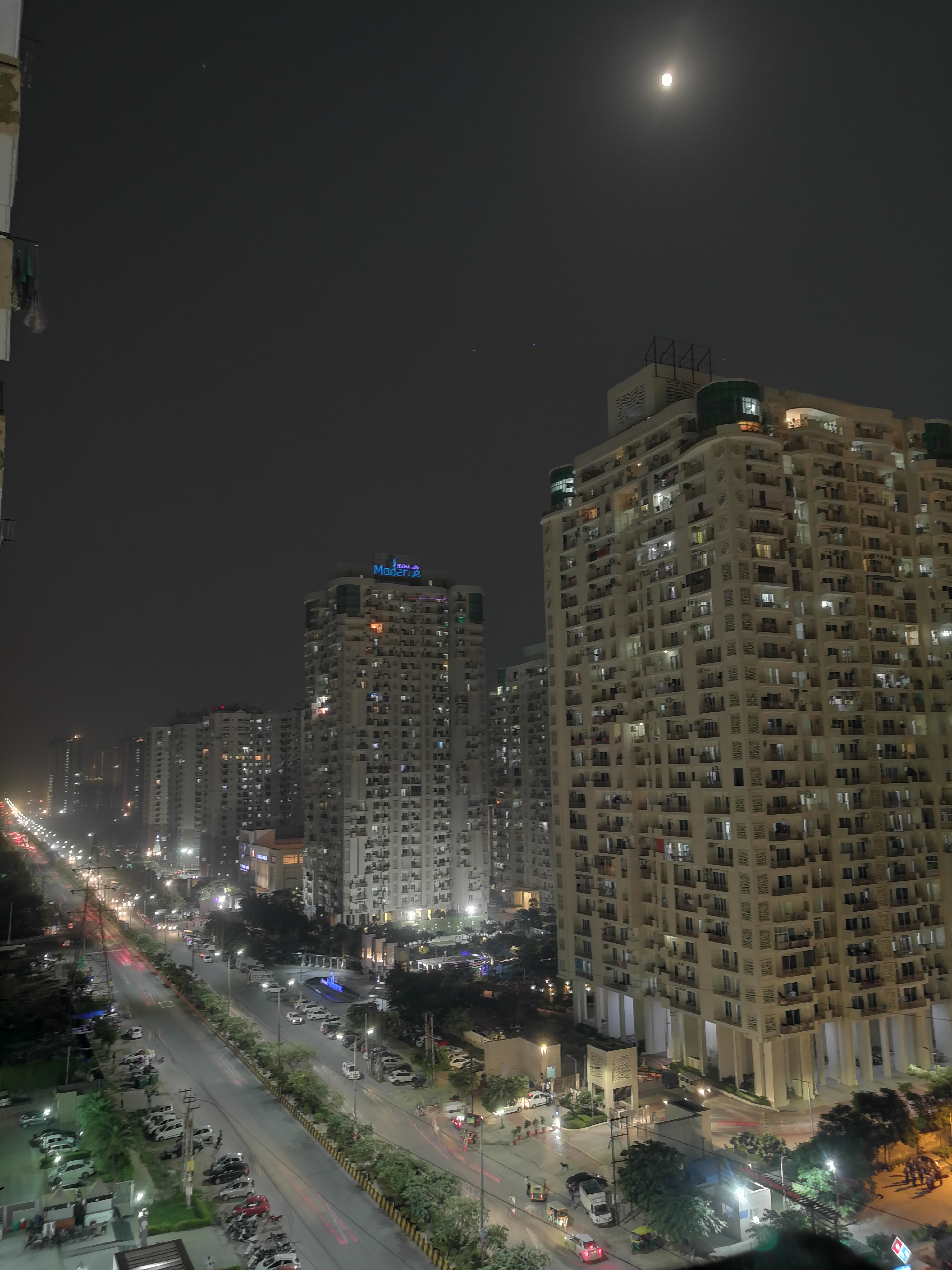 Noida sector 78